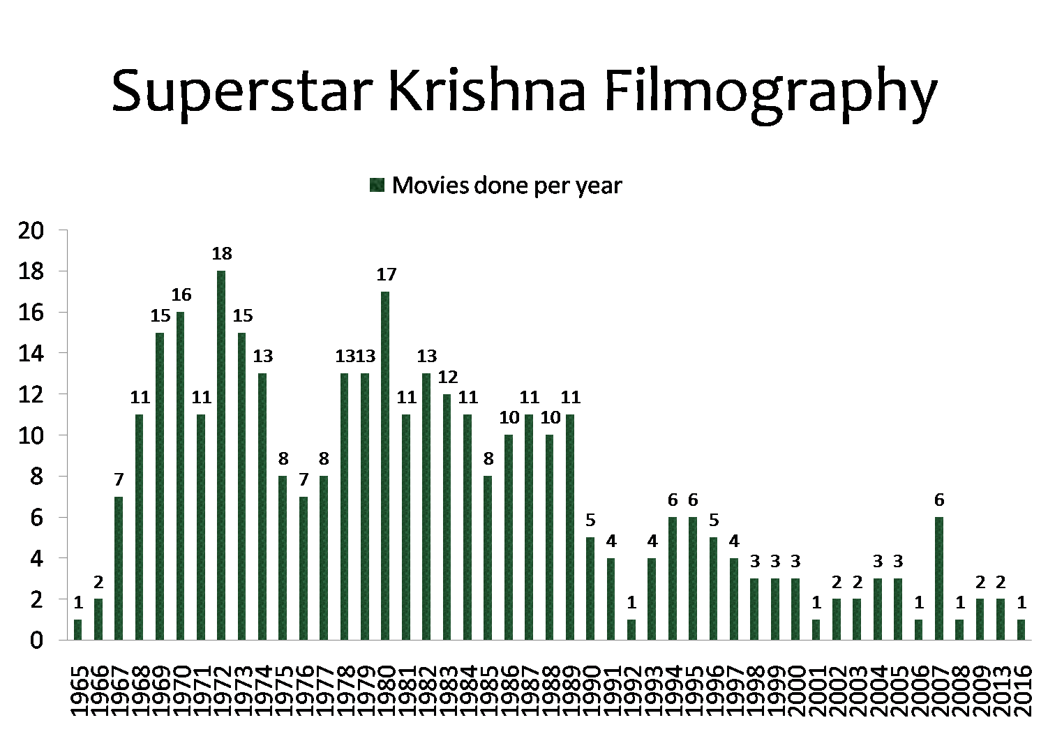 Filmography chart of the films done per year by actor Krishna, Indian Telugu Actor